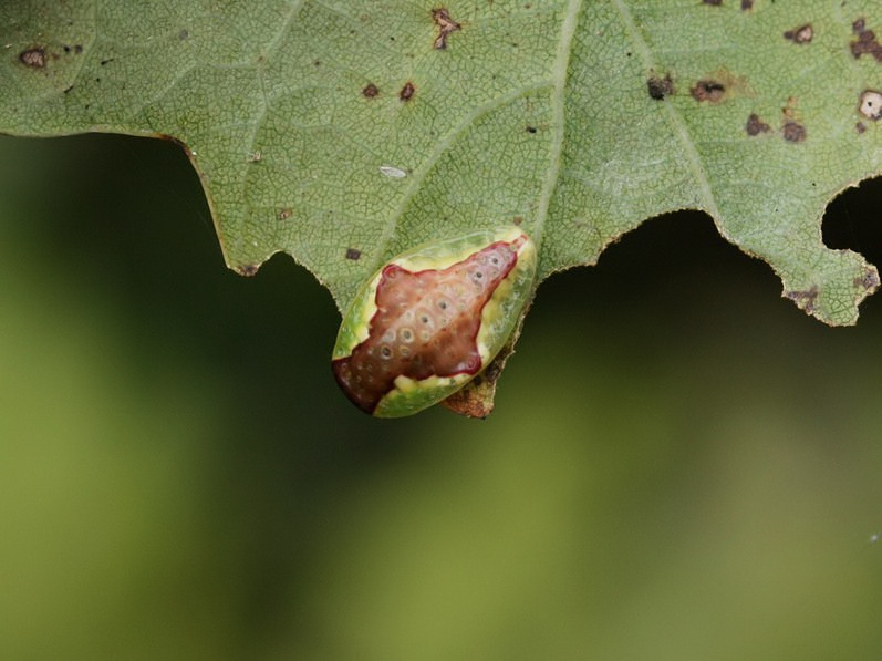 Heterogenea asella larva, location: The Netherlands - Sallandse Heuvelrug - Eelerberg